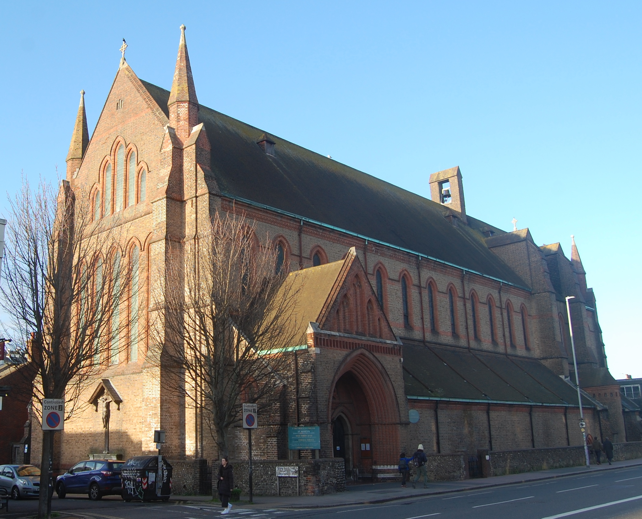 St Martin's Church, Lewes Road, Brighton, City of Brighton and Hove, England.